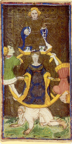 The Wheel of Fortune, Visconti-Sforza Tarot Deck